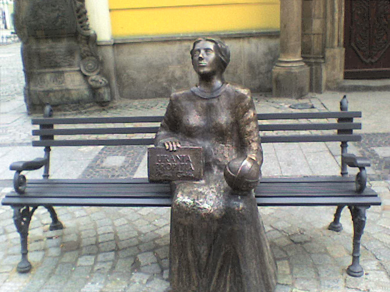 Swidnica the bench with a sculpture of Mary Cunitz